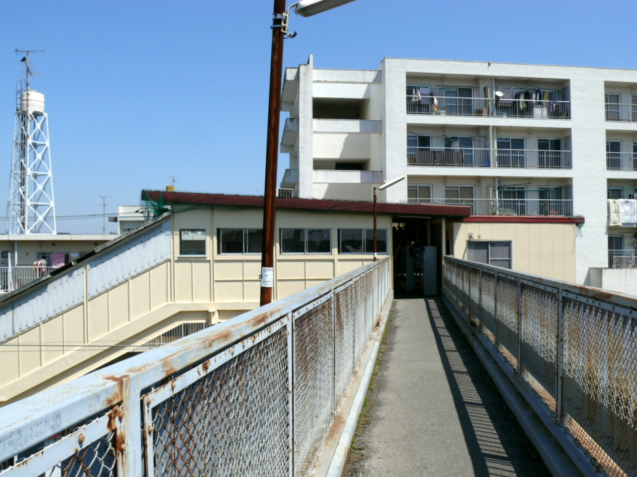 Ryutetu Koganejoushi Station Westward exit.